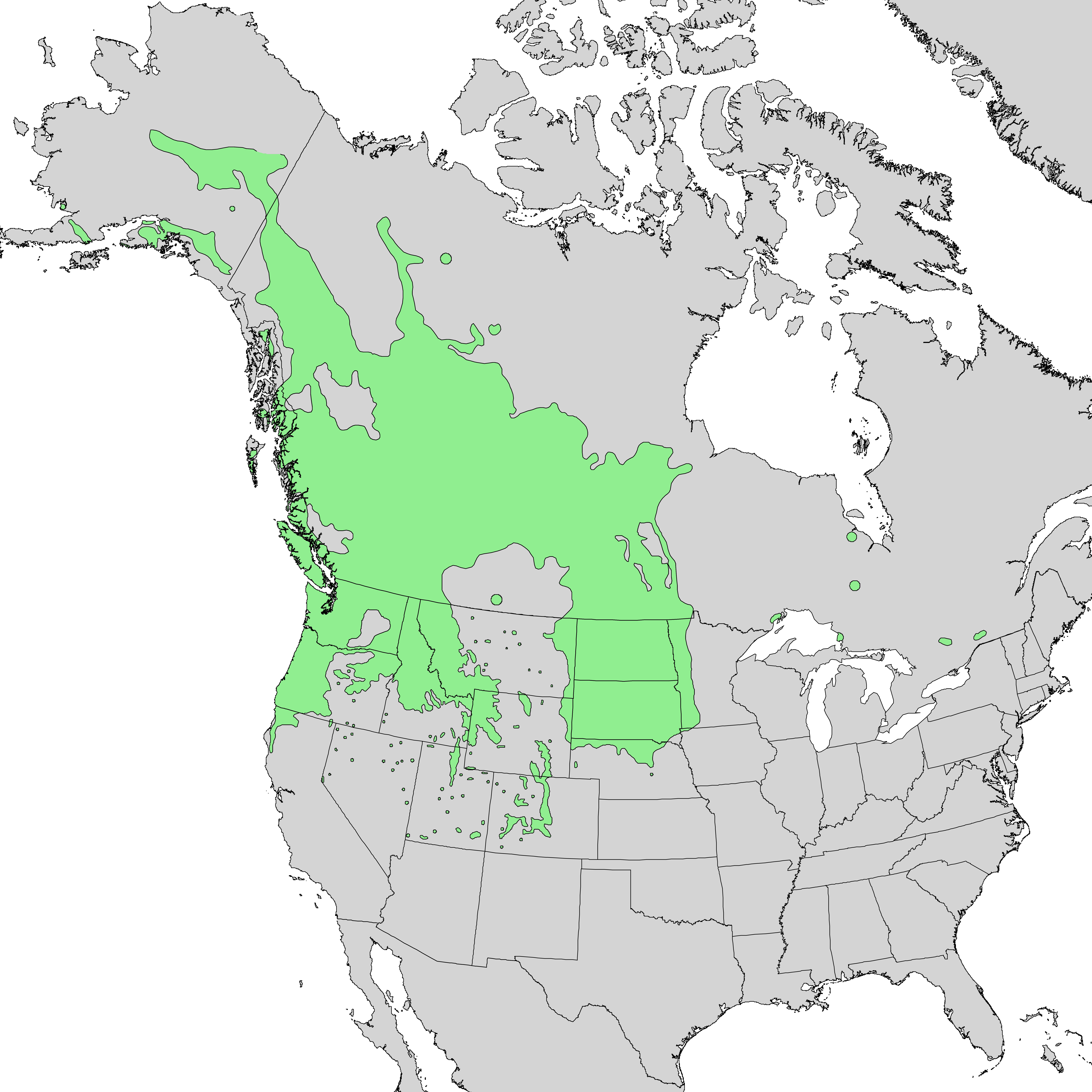 Natural distribution map for Amelanchier alnifolia